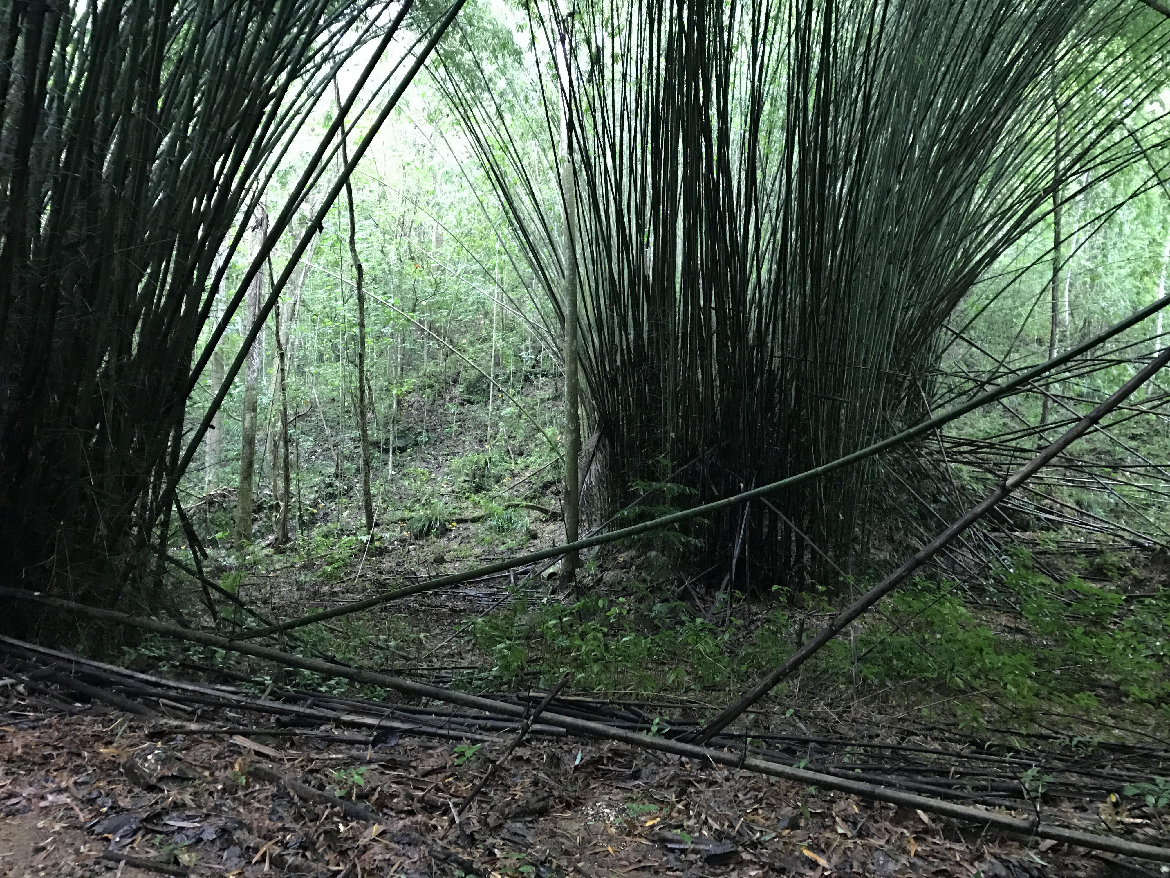 Clumps of bamboo in Rio Abajo forest, Puerto Rico